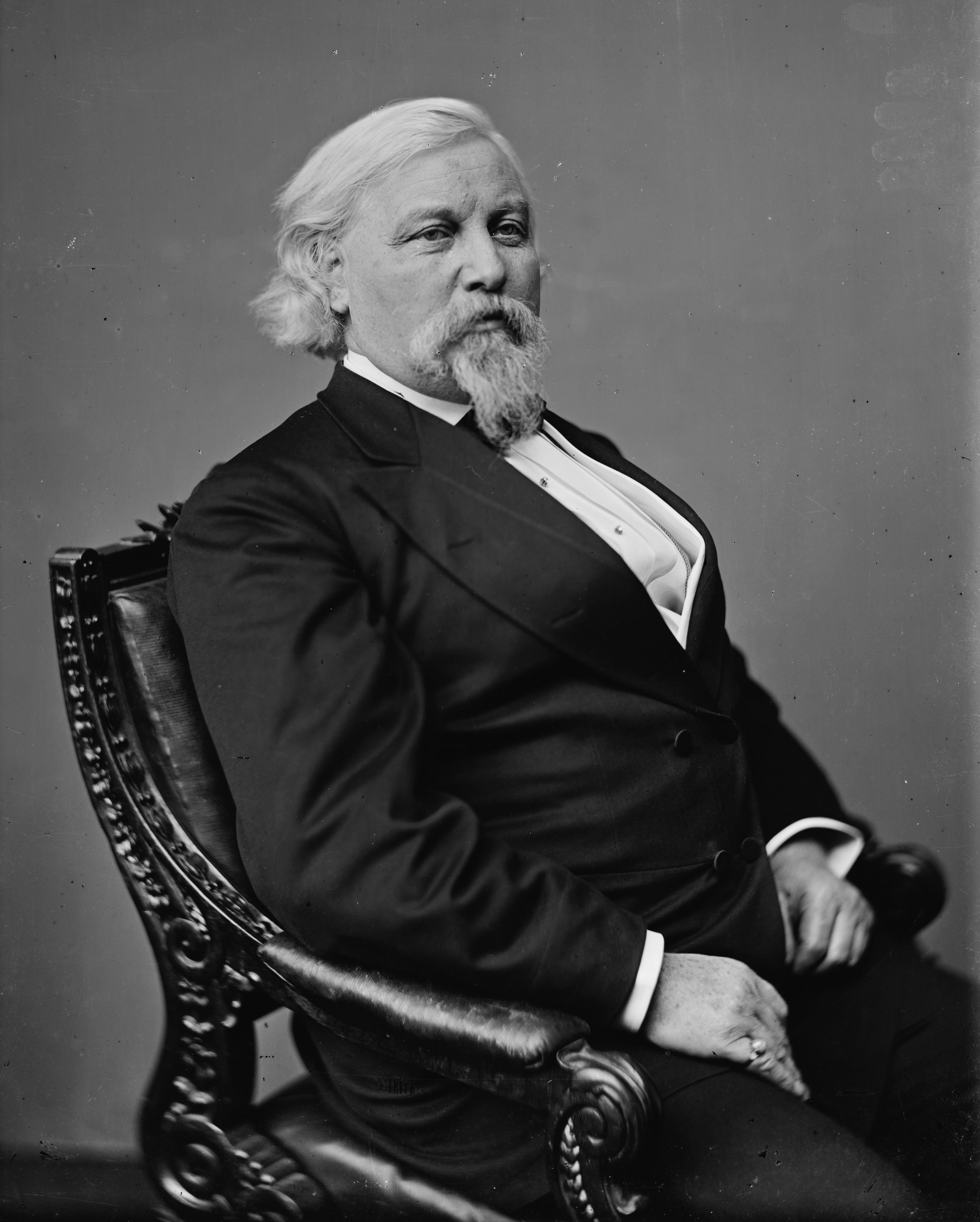 Marshall Jewell. Library of Congress description: "Jewell, Marshall, Post-Master General"